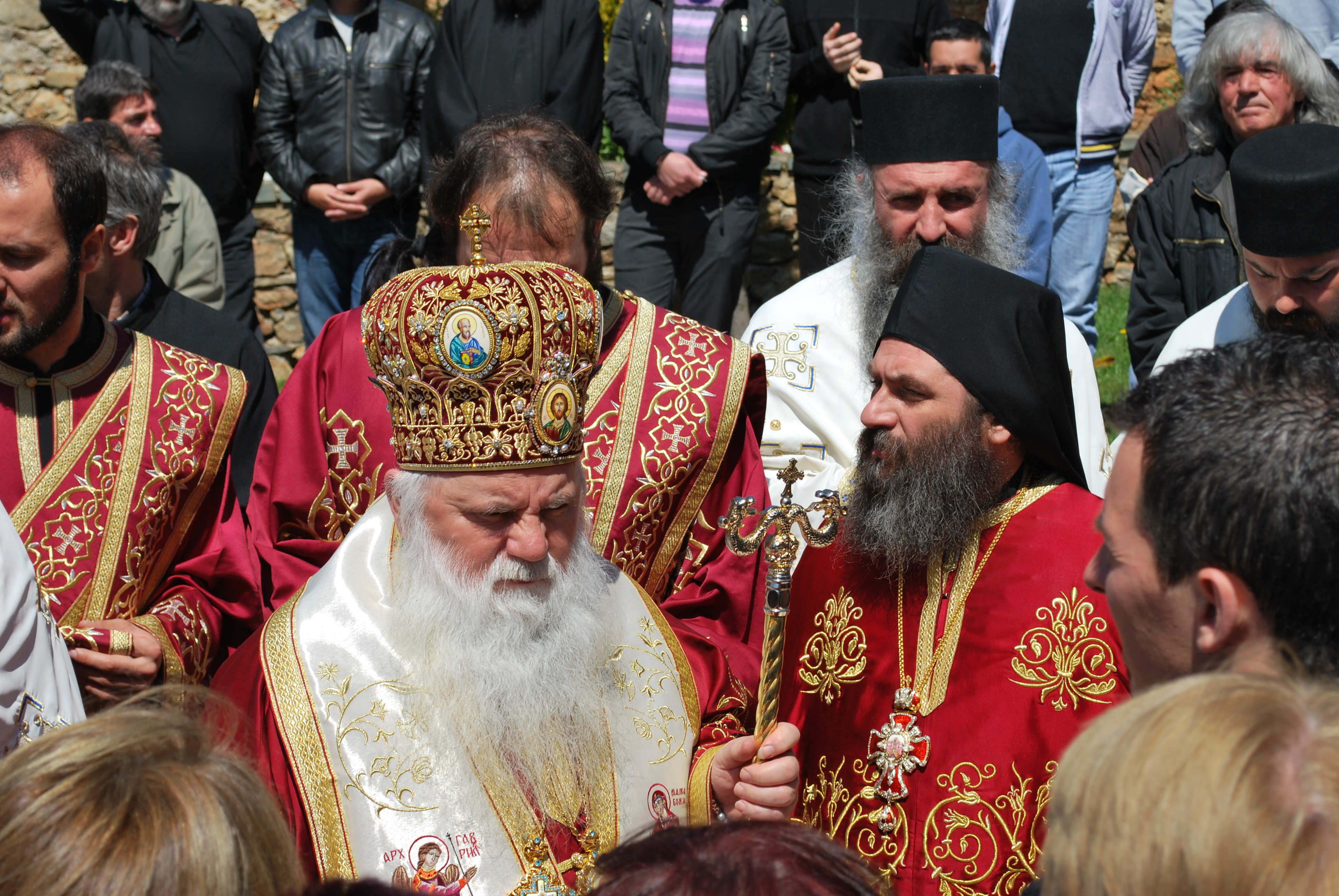 Rajčica Monastery, Macedonia